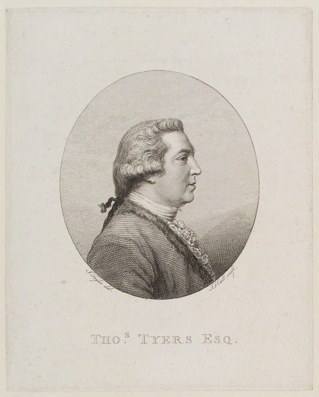 Portrait of Thomas Tyers (1726–1787) English dilettante author.